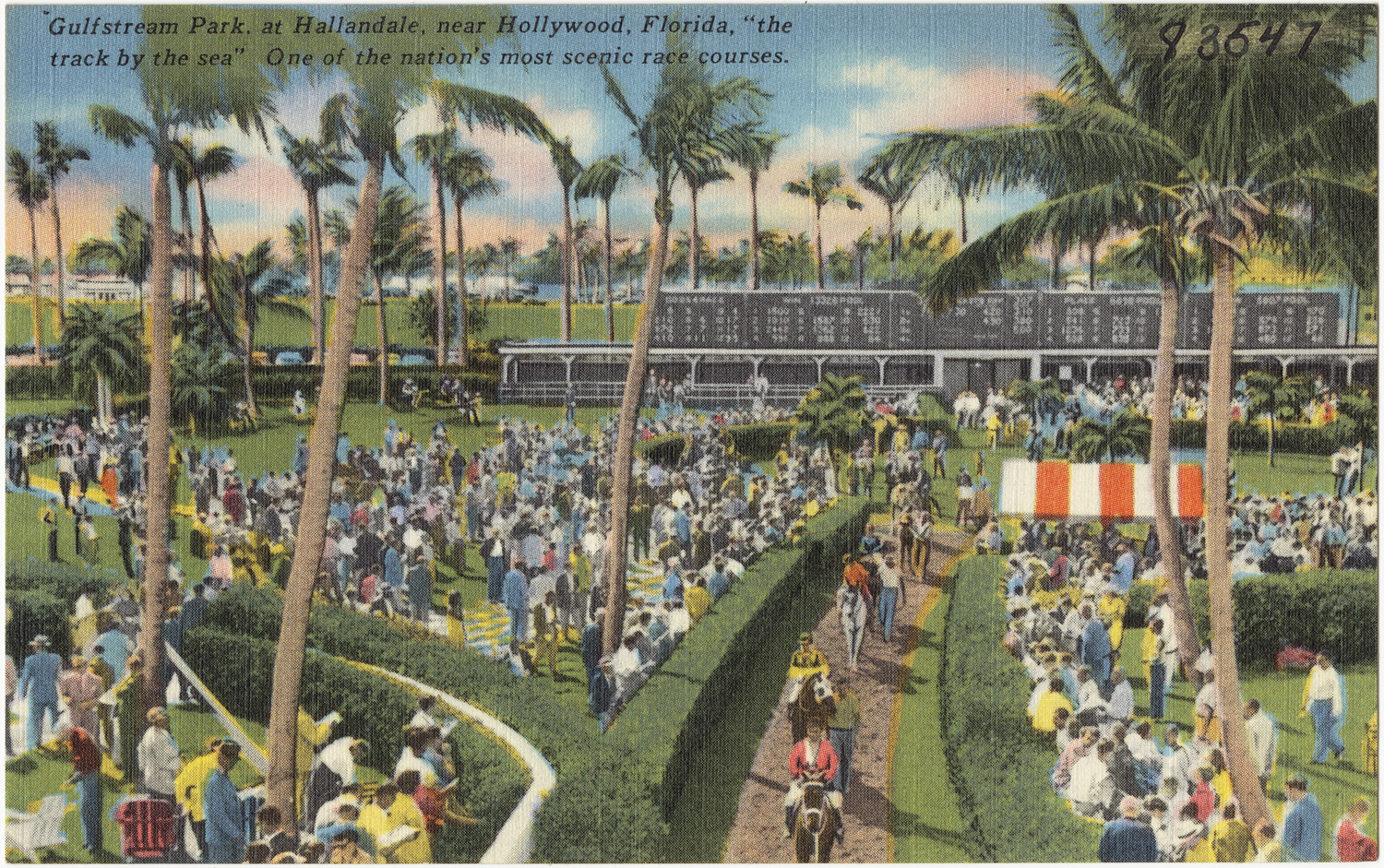 File name: 06_10_006625 Title: Gulfstream Park, at Hallandale, near Hollywood, Florida, 'the track by the sea'. One of the nation's most scenic race courses. Date issued: 1930 - 1945 (approximate) Physical description: 1 print (postcard) : linen texture, color ; 3 1/2 x 5 1/2 in. Genre: Postcards Subject: Sports & recreation facilities Notes: Title from item. Collection: The Tichnor Brothers Collection Location: Boston Public Library, Print Department Rights: No known restrictions